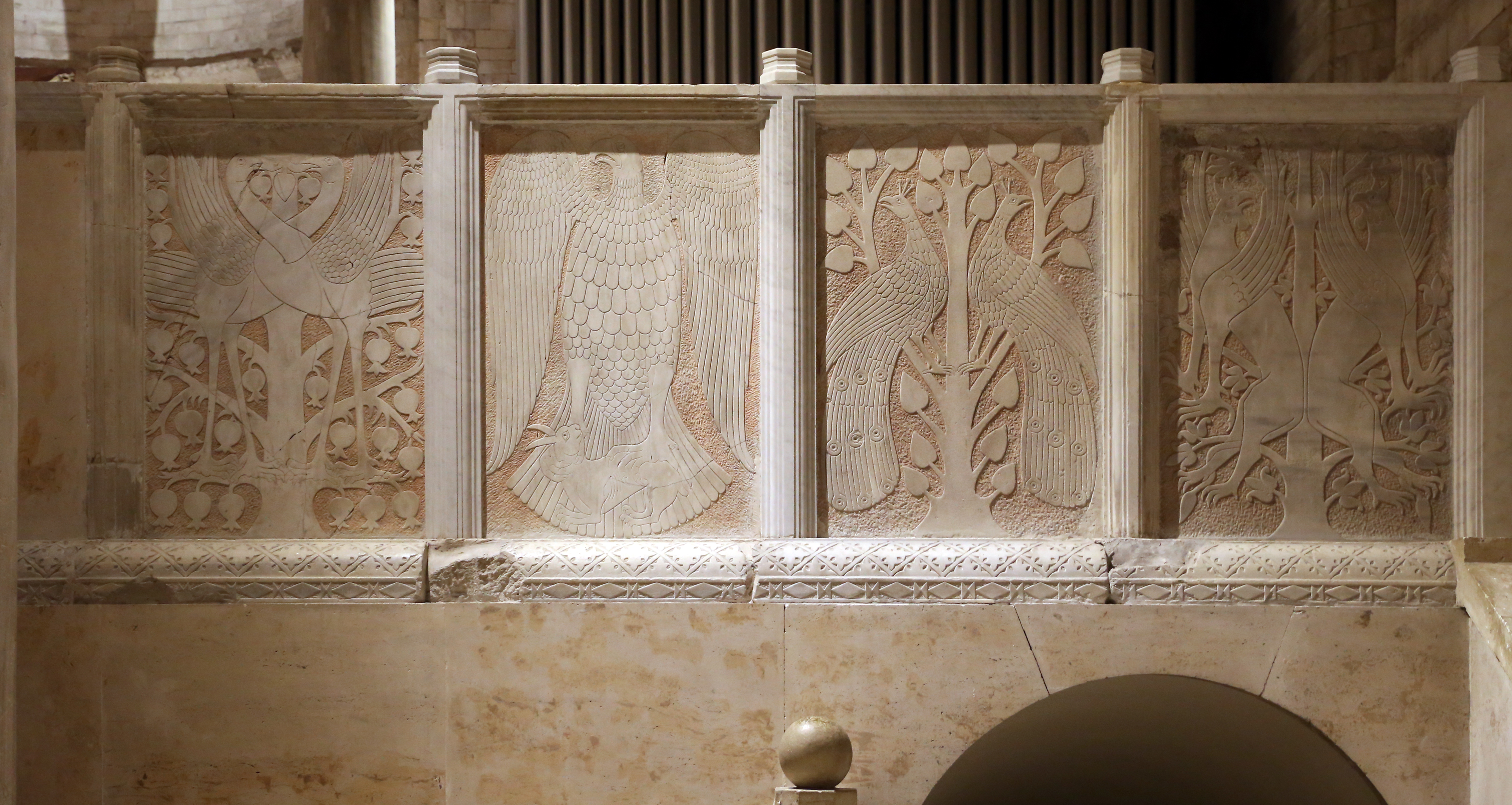 Night in Ancona